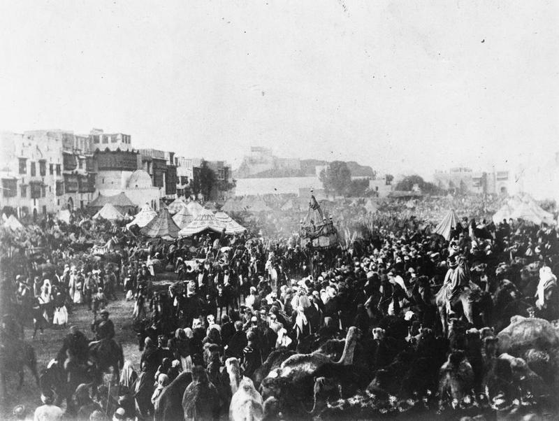 T E Lawrence and the Arab Revolt 1916 - 1918 The Holy Carpet at Mecca (the Mahmal being carried through the streets of Mecca).